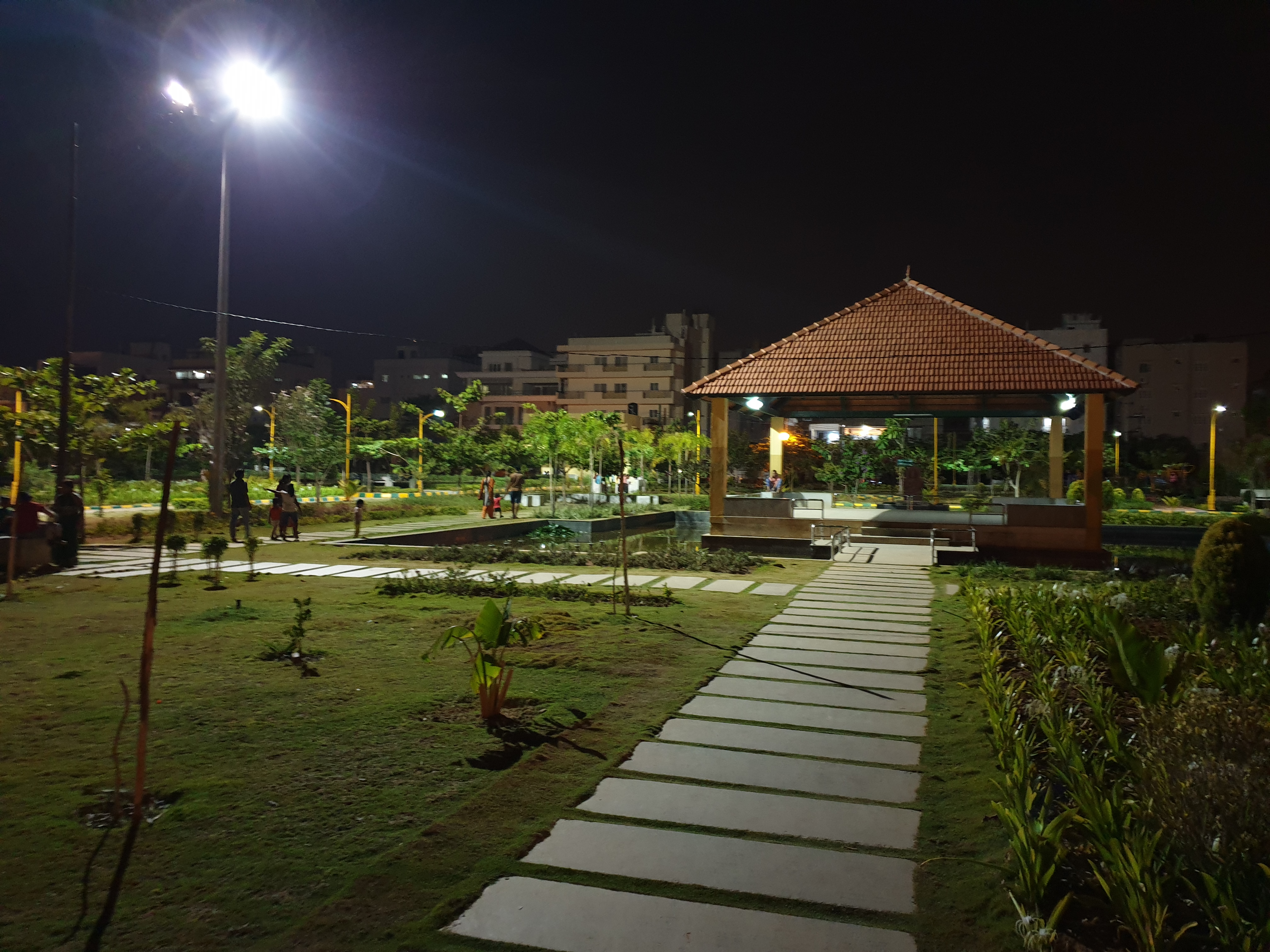 Night time photo of Meditation Center in HSR Layout